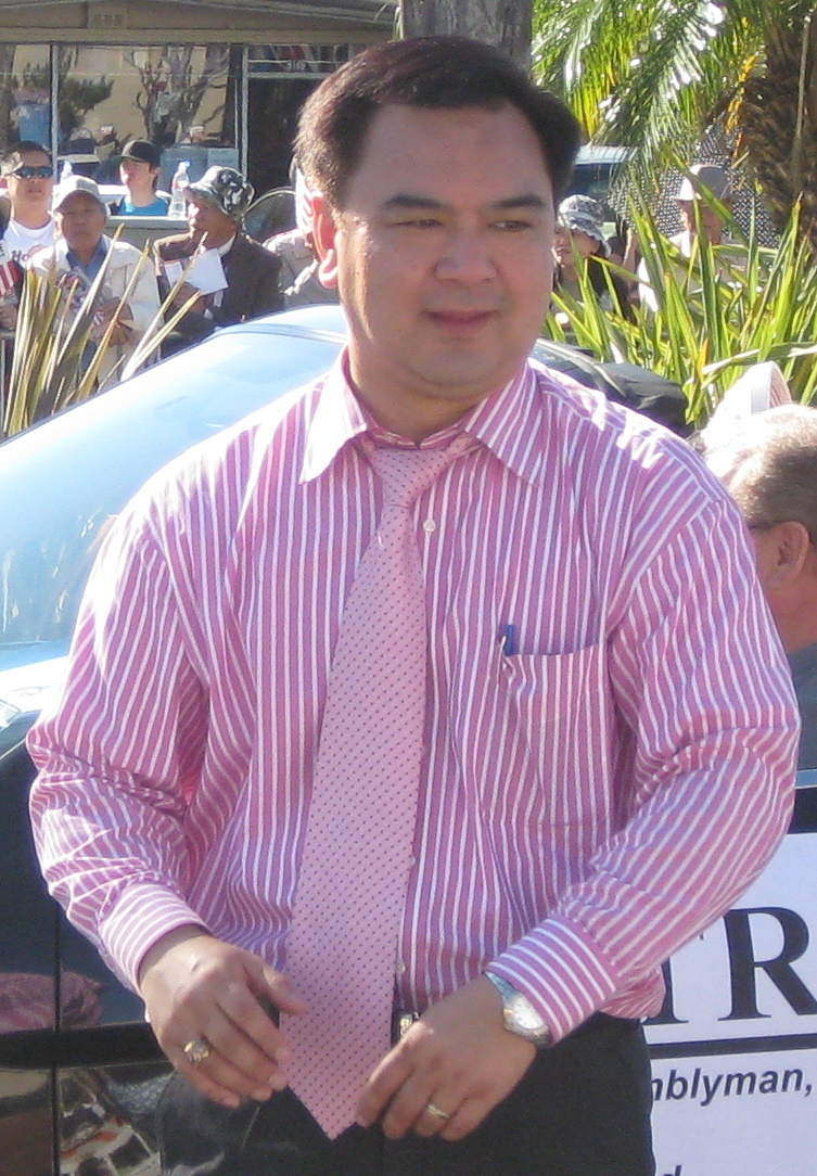 California Assemblyman Van Tran.